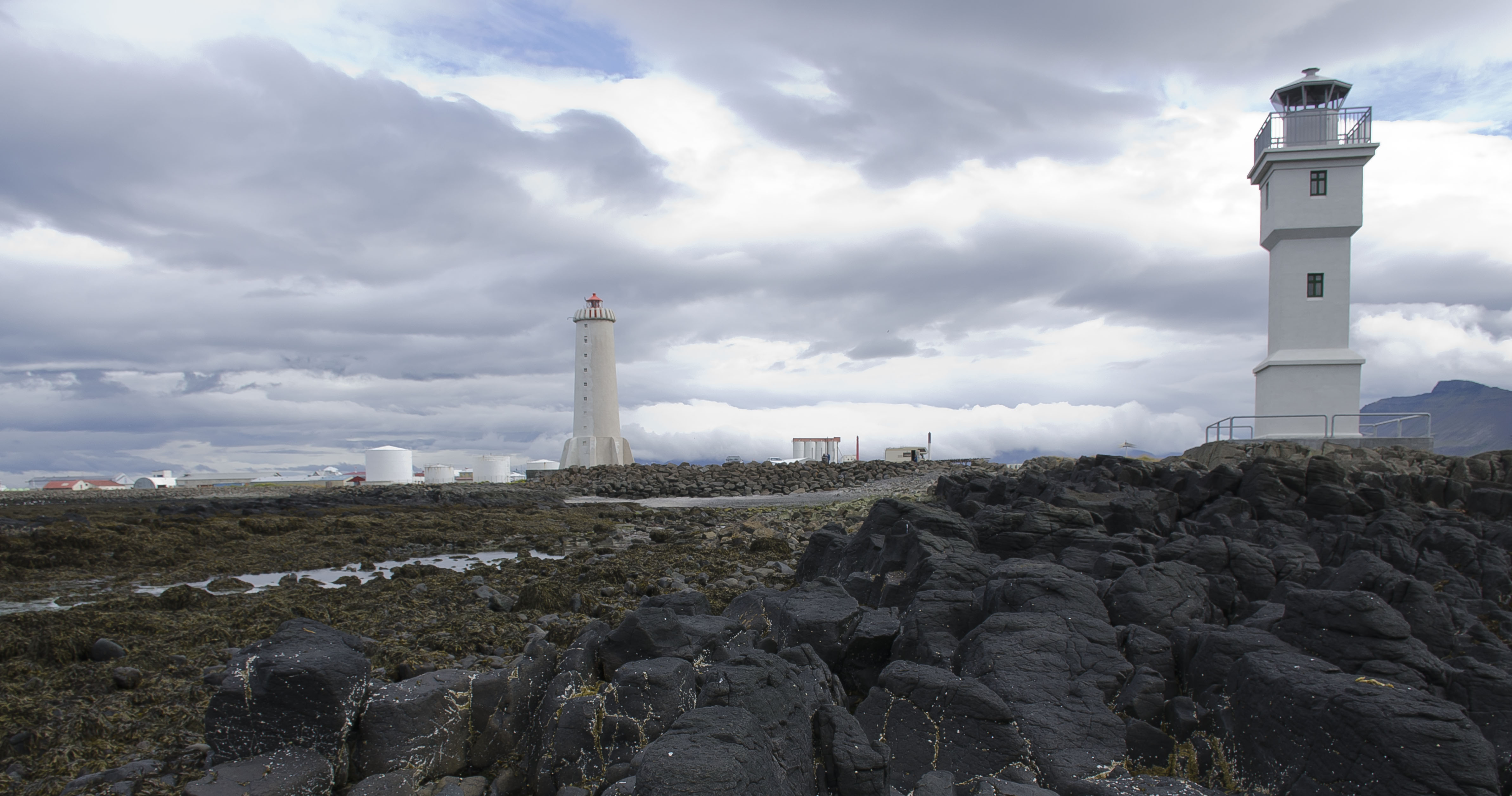 Akranes, Iceland. Lighthouses built in 1918 (back) and 1946